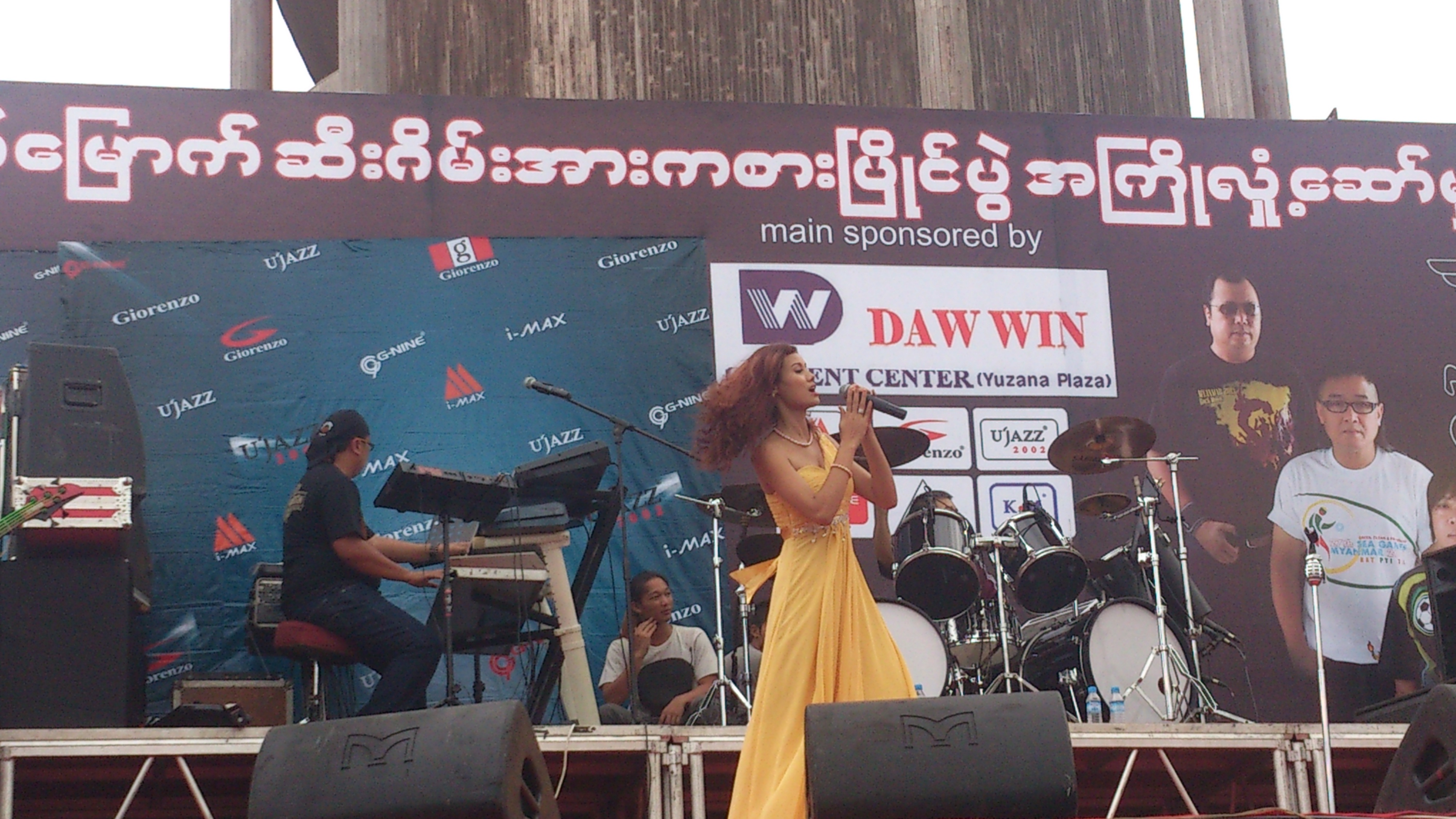 Burmese female singer Chan Chan performing in May 2013 at Pyin Oo Lwin မြန်မာဘာသာ: မေ ၂၀၁၃ တွင် ပြင်ဦးလွင်မြို့၌ ဖျော်ဖြေမှုပြုလုပ်နေသော ချမ်းချမ်း